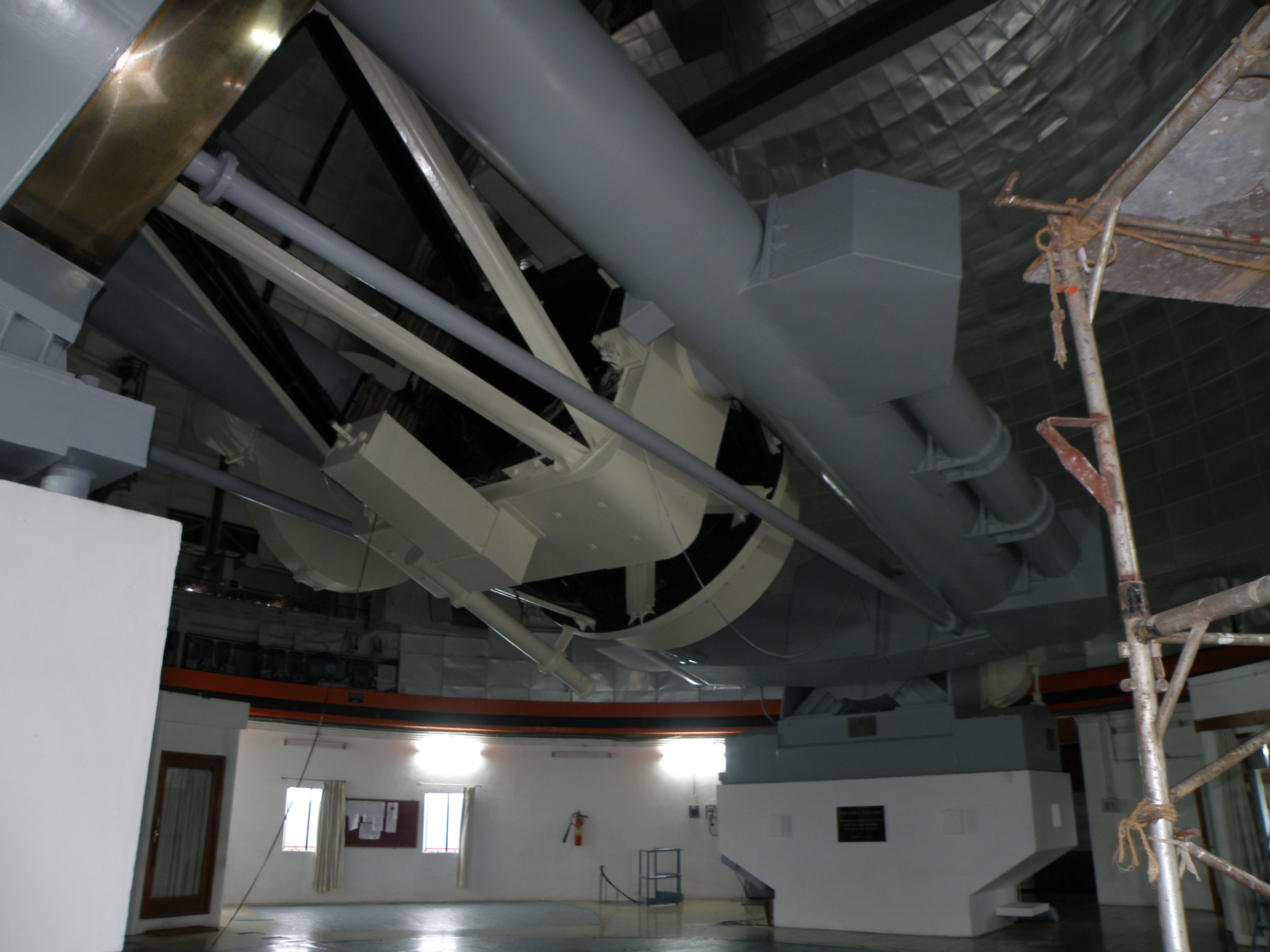 A part of the 93-inch telescope at Vainu Bappu Observatory.